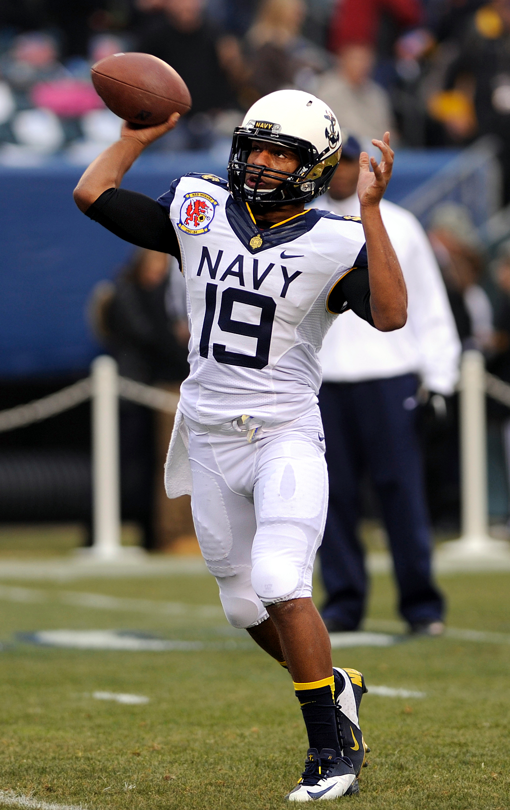 U.S. Naval Academy quarterback Keenan Reynolds throws a pass during the first half of the 113th annual Army Navy football game at Lincoln Financial Stadium.